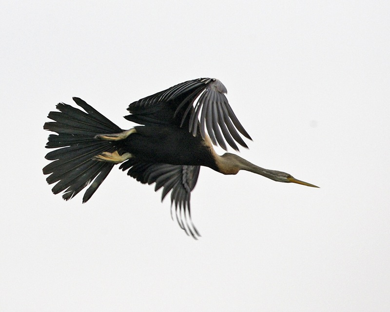 Oriental Darter / Snakebird Anhinga melanogaster Nominate race, Anhinga melanogaster melanogaster Kazaringa, Assam, India April 14, 2008 Status : Near Threatened 690V4029